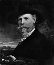 Portrait of the Artist 1902 Oil on canvas 61 x 53.3 cm (24.02" x 20.98") Private collection Added: 2005-02-28